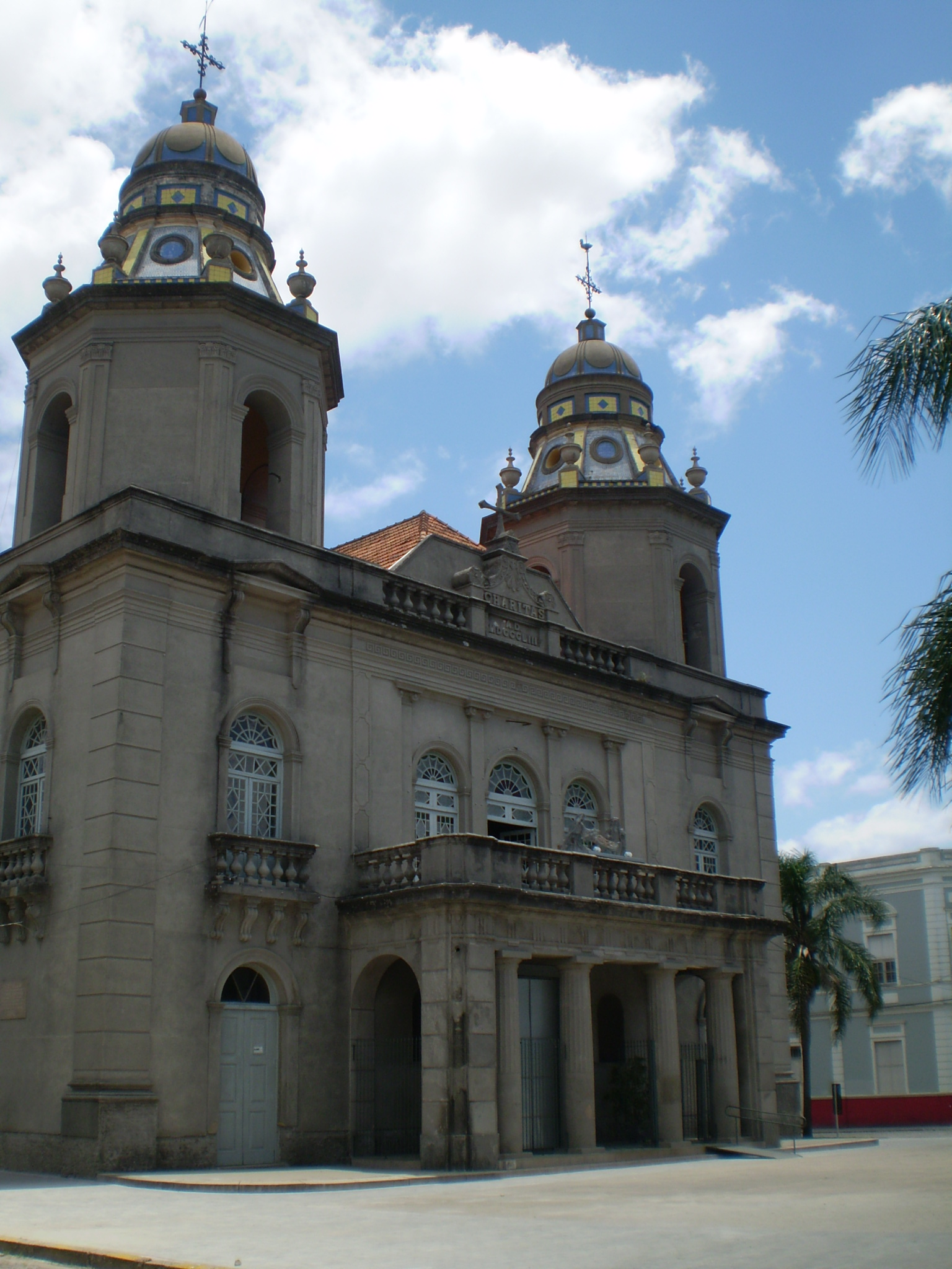 Cathedral of Pelotas, Rio Grande do Sul, Brazil.